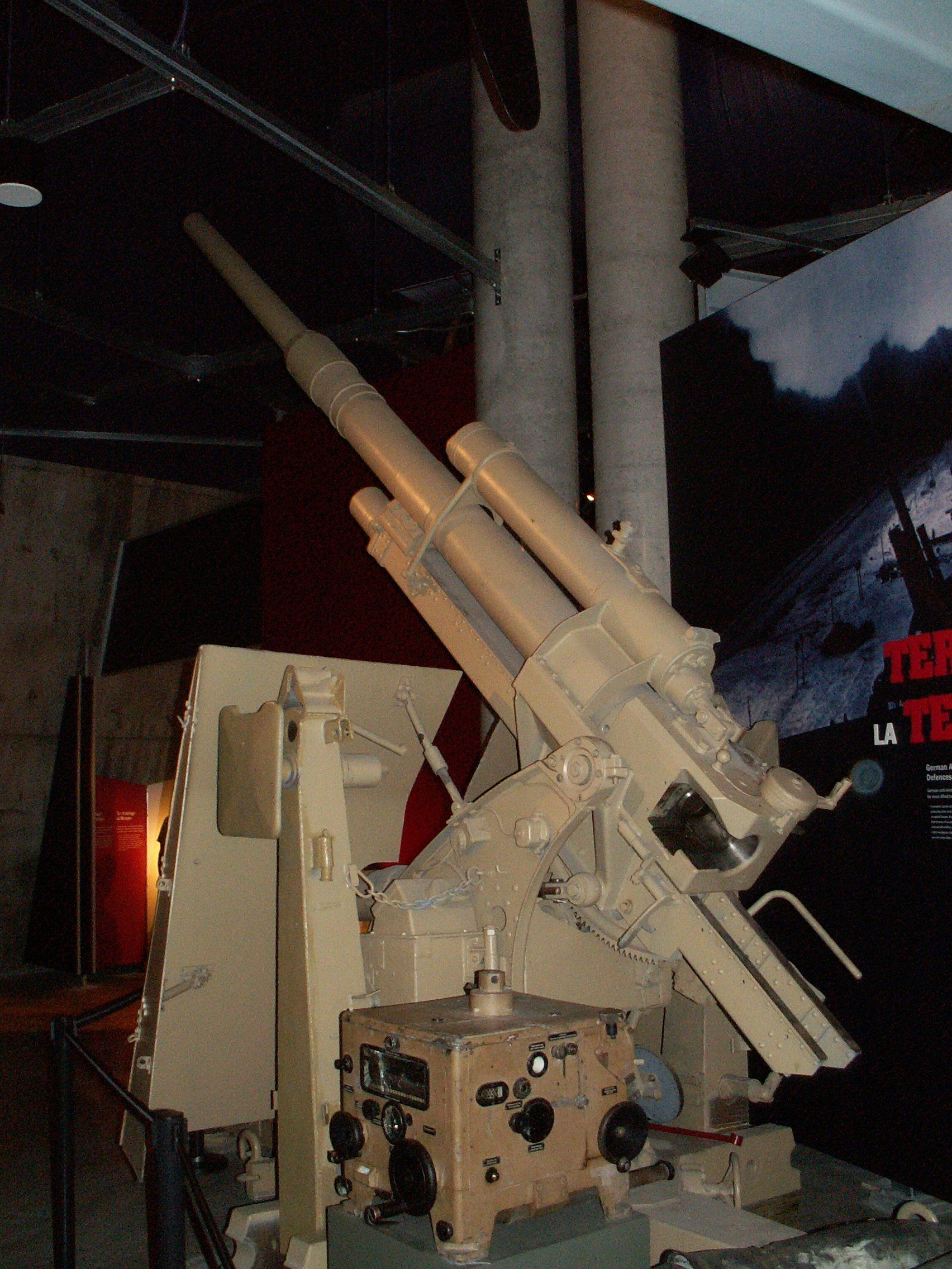 8,8cm Flak.